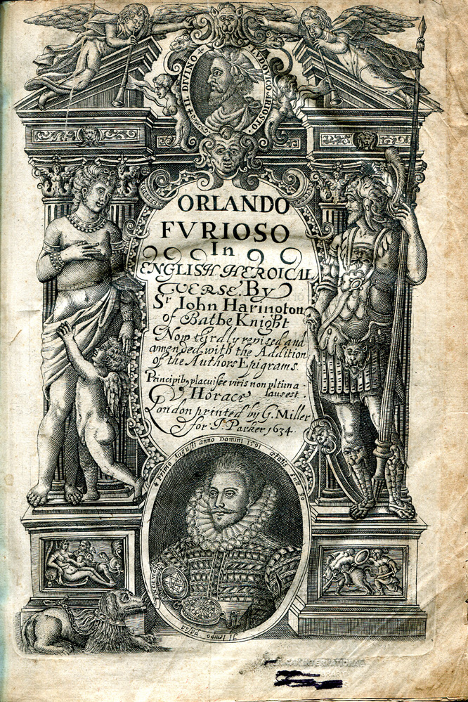 Title page of the third English edition of Orlando Furioso by Ludovico Ariosto and translated by John Harington.